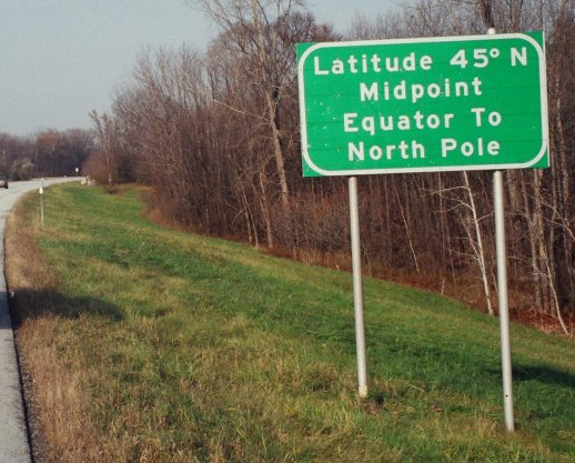 This photo is of a sign located on Interstate 89 in Vermont just south of the border with Quebec Province, Canada. Approximative coordinates